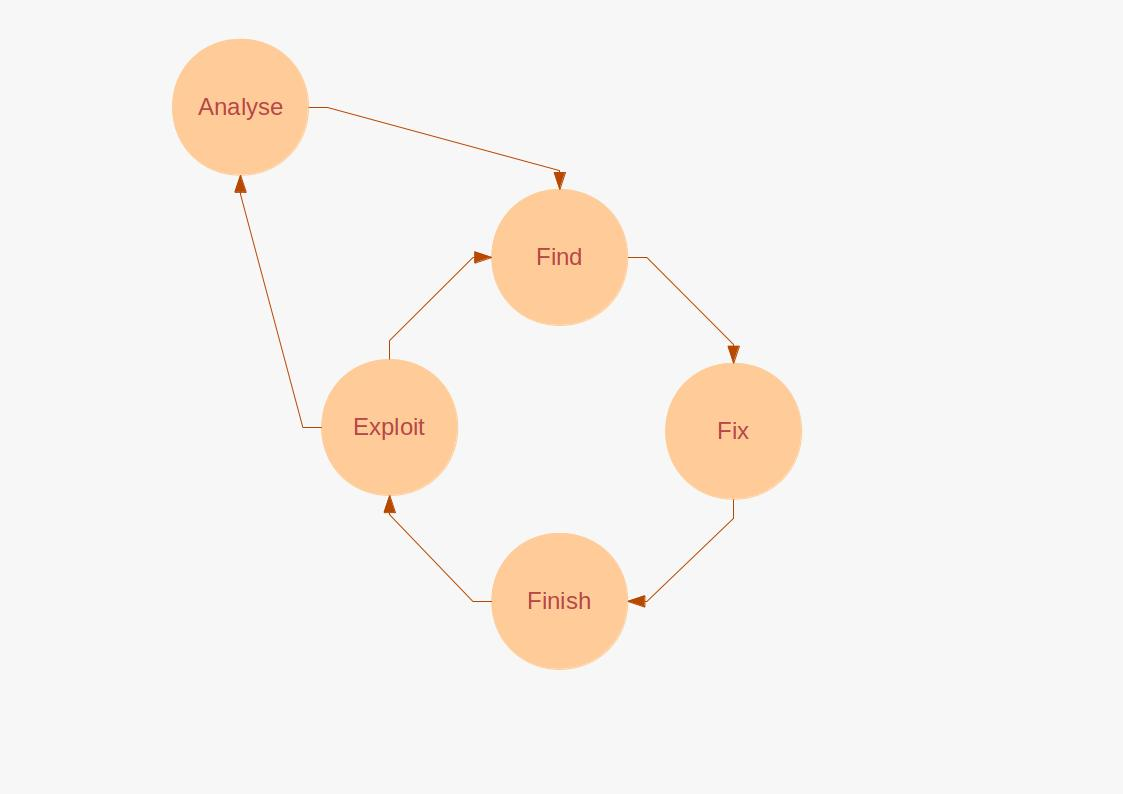 Target centric intelligence cycle as used in NATO and ISAF